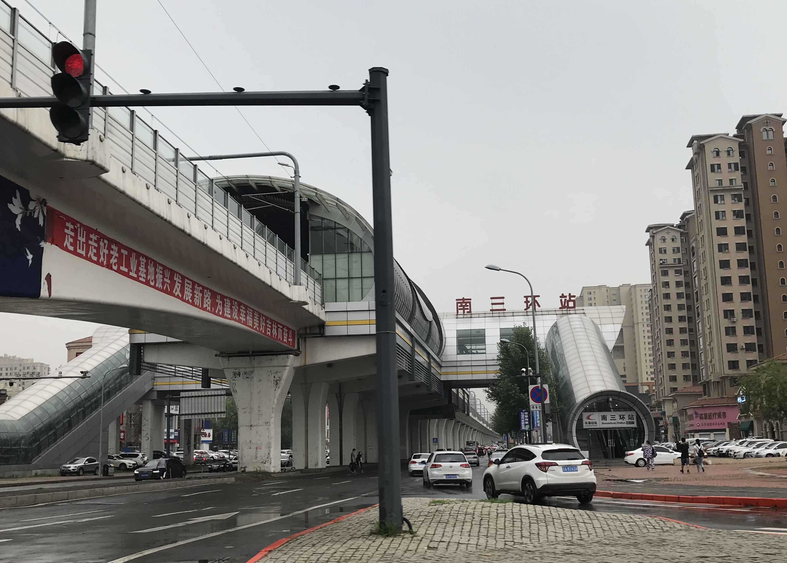 South Huancheng Road Station - exterior